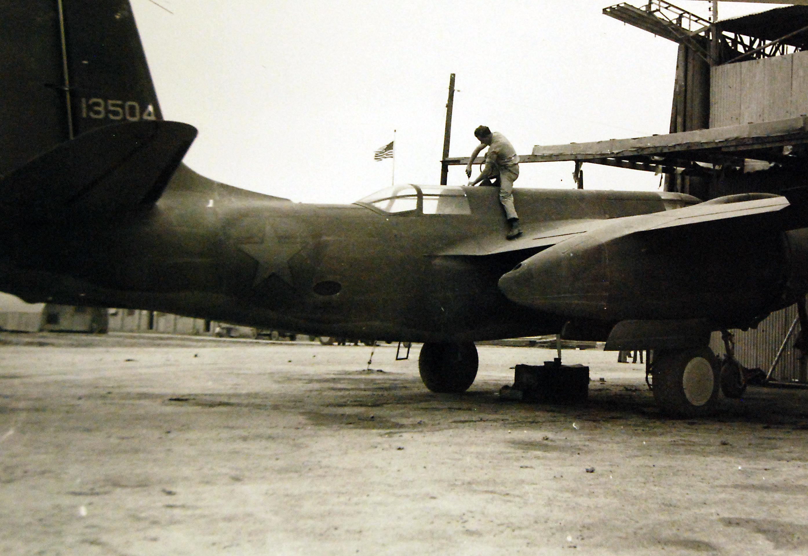 Lot-11600-5: Middle East Activities, WWII. American airplane mechanic putting finishing touches to a warplane before delivery to Russia, somewhere in Iran, March 1943. The aircraft being transported were Douglas A-20 Havoc “Boston”. Photographed by Nick Parrino. Office of War Information Photograph. (2016/06/03).